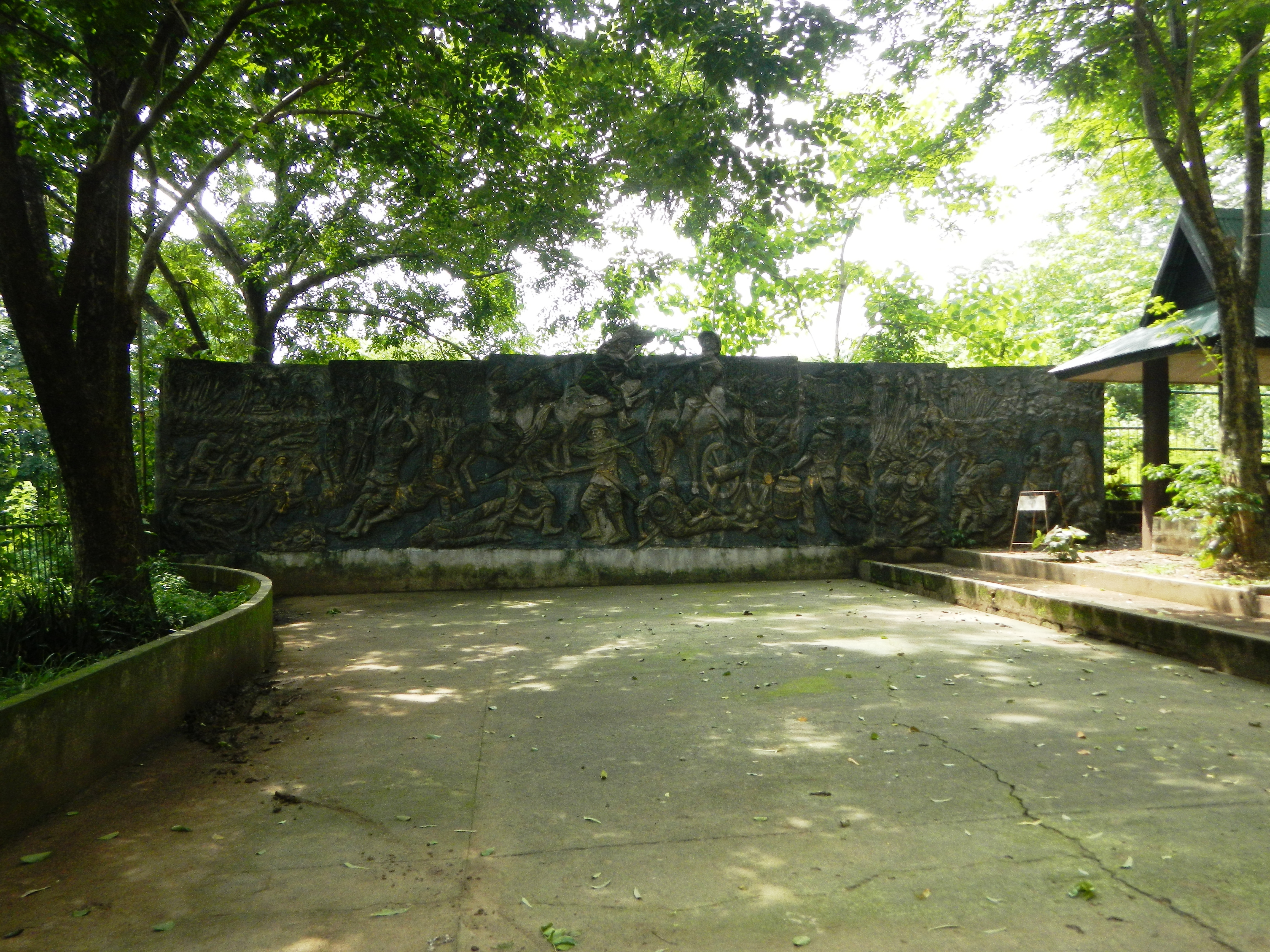 Inang Filipina Shrine and Park Pandi, Bulacan - Barangay Real de Cacarong, Pandi, Bulacan - Battle of Kakarong de Sili - Battle of Cacarong - Real de Kakarong de Sili: located in Barangay Real de Cacarong, Pandi, Bulacan along the interior Pandi-Angat Road.